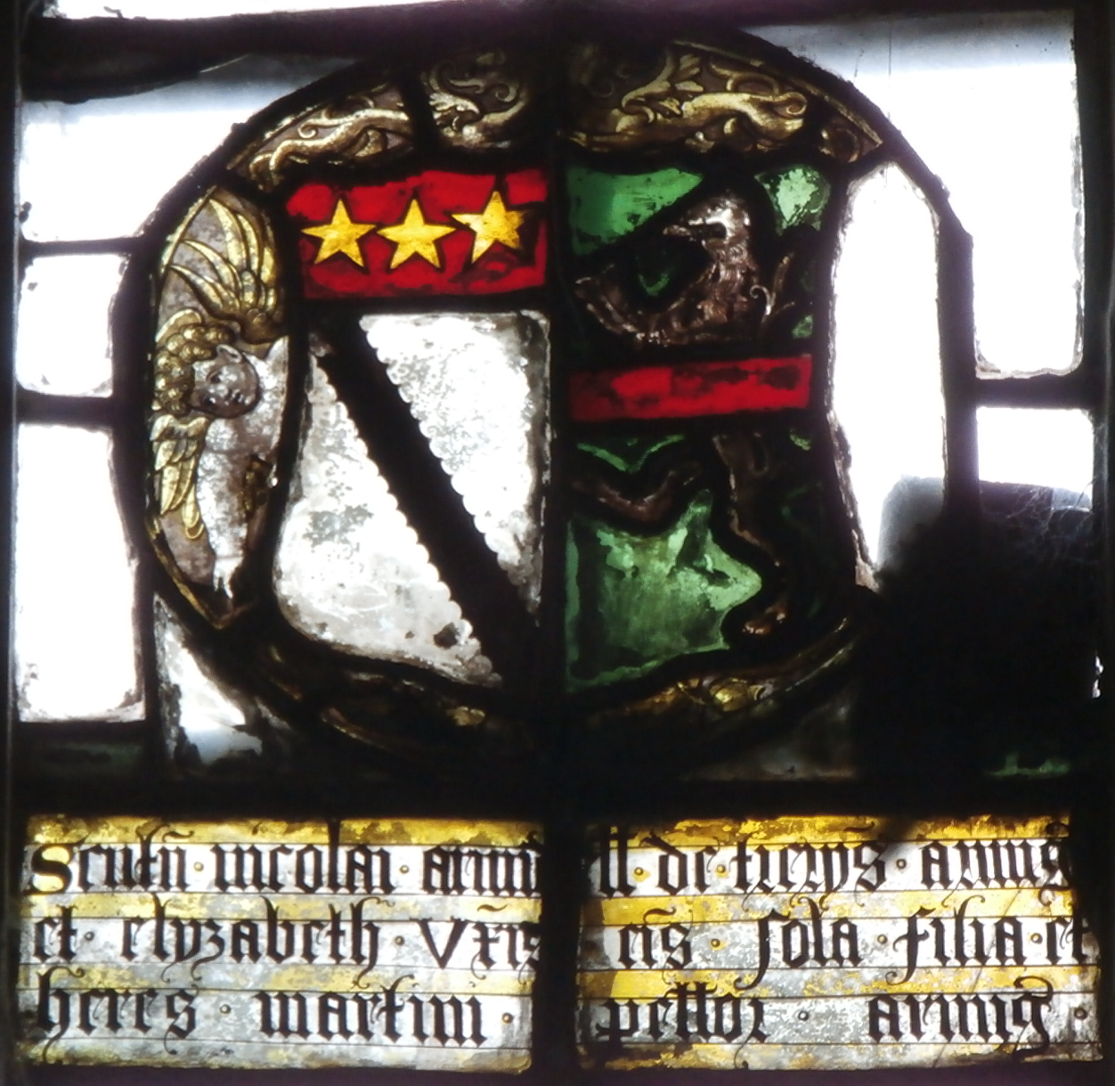 15th century stained glass fragment in east window of north aisle, Selworthy Church, Somerset, showing the arms of St John of Selworthy (Argent, a bend engrailed sable on a chief gules three mullets or) impaling Vert, a lion rampant argent over all a fess gules. Underneath is inscribed in Latin: Scutu(m) Nicolai Arundell de Trerys armig(eri) et Elizabeth(ae) ux(o)r(i)s ei(u)s sola filia et heres Martini Peltor armig(eri) ("Shield of Nicholas Arundell of Trerice, Esquire, and of Elizabeth his wife, only daughter and heir of Martin Peltor, Esquire")